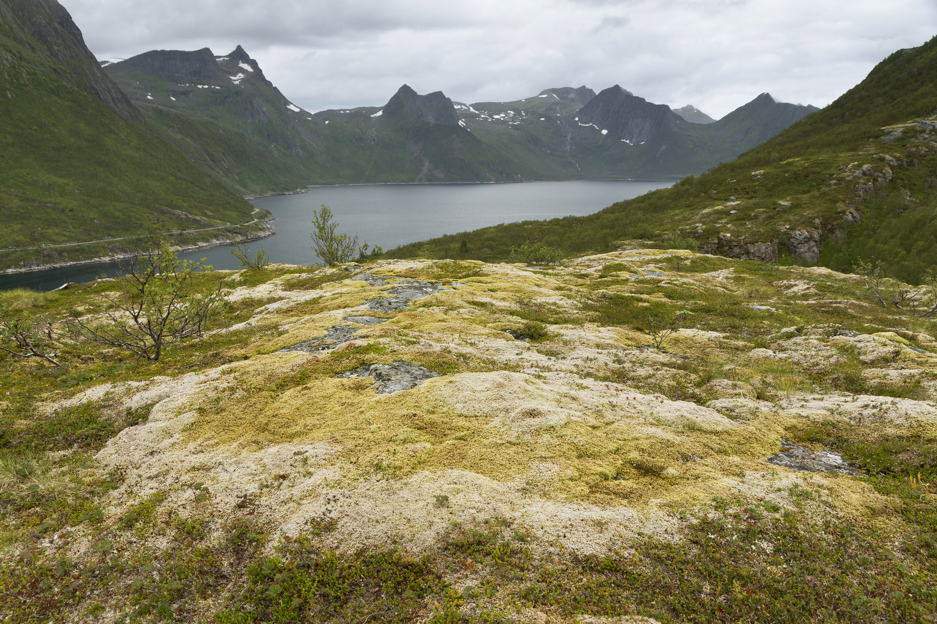 Layers of lichen on a hill at Mefjorden in Senja, Troms, Norway in 2014 August.